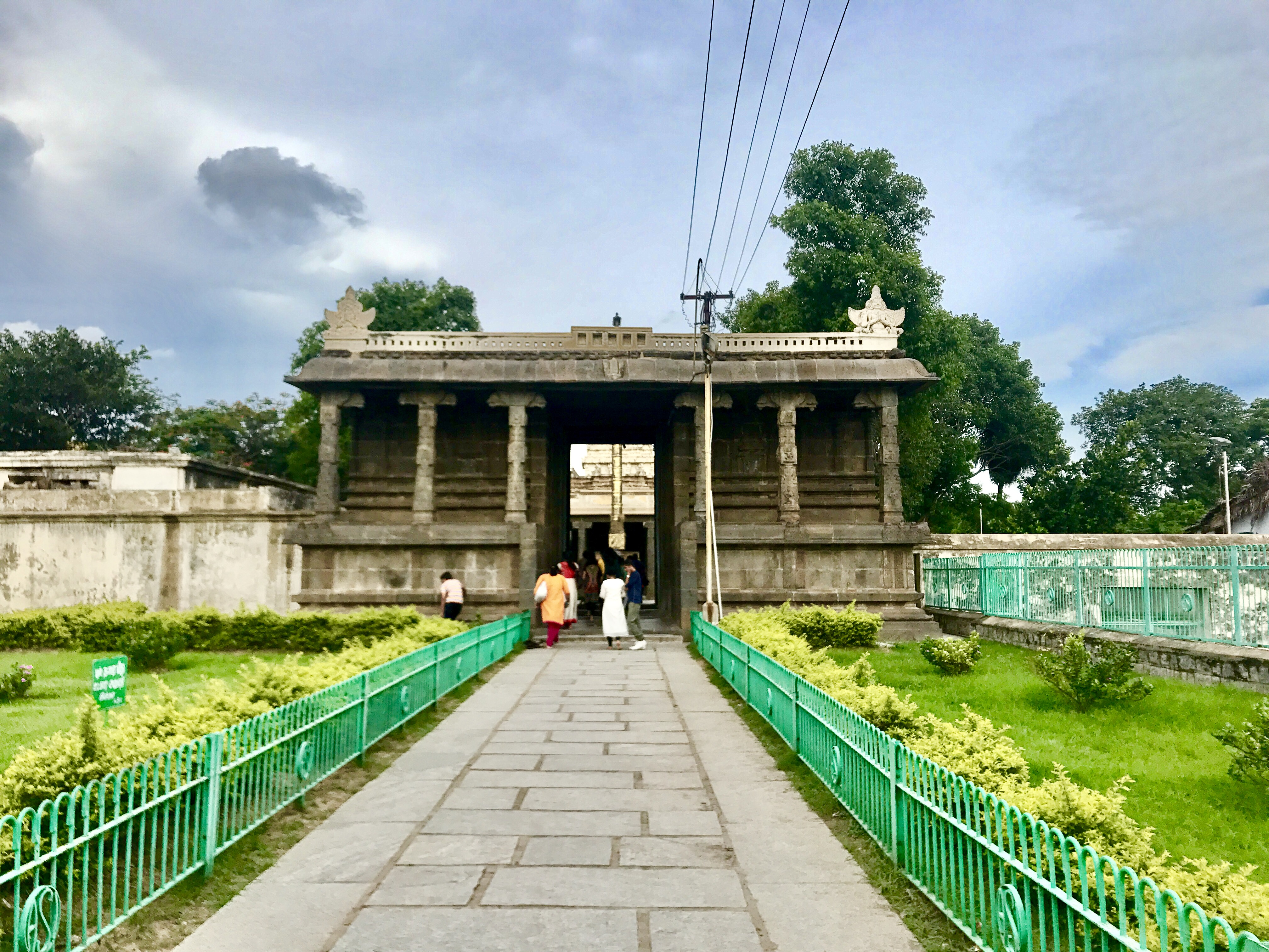 Vaikunta Perumal Temple